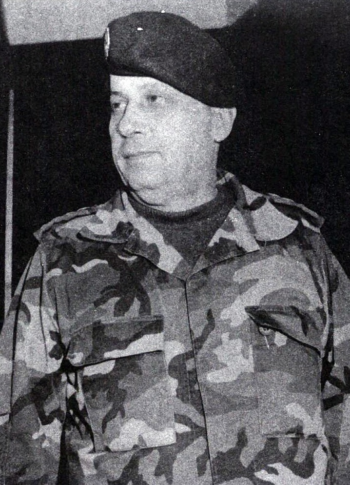 Michel Aoun - 1988 (picture first published in March 1988 in the book of "On the way to the Palace; Presidential Candidates and programs of 1988.)